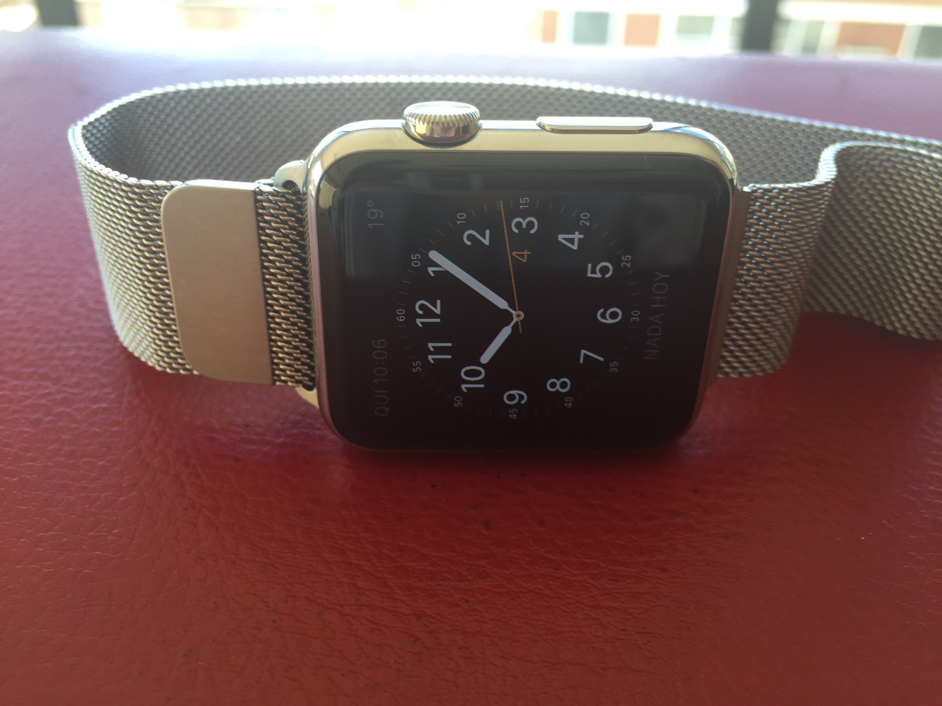 Apple I Watch 2015 Model very cool